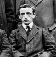 Group photograph of Geological Survey staff in Edinburgh. Back row (left to right) J.E. Richey, G.W. Lee, Carruthers, C.H. Dinham, C.B. Crampton, E.B. Bailey. Front row (left to right) G.V. Wilson, Clough, J.S. Flett, L.W. Hinxman, M. Macgregor.